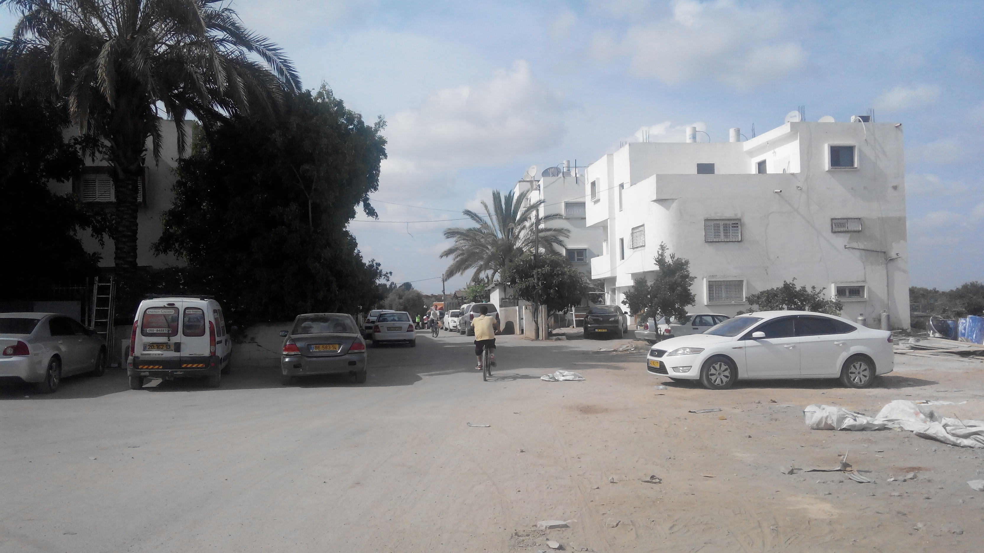 The village of Dahamash, May 2015